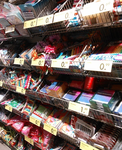 A One Euro shop on Damrak in Amsterdam, Holland.